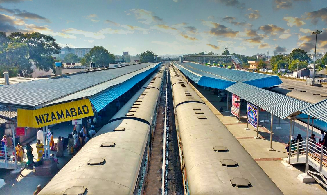 A view of railway platforms from a foot over bridge at Nizamabad Railway Station, Telangana, India. The Nizamabad-Pune Passenger hauls from PF1 while the just arrived Kacheguda-Nizamabad Demu rests at PF2.